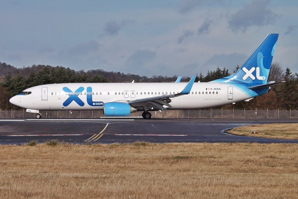 F-HJUL Boeing 737-800 XL Airways France